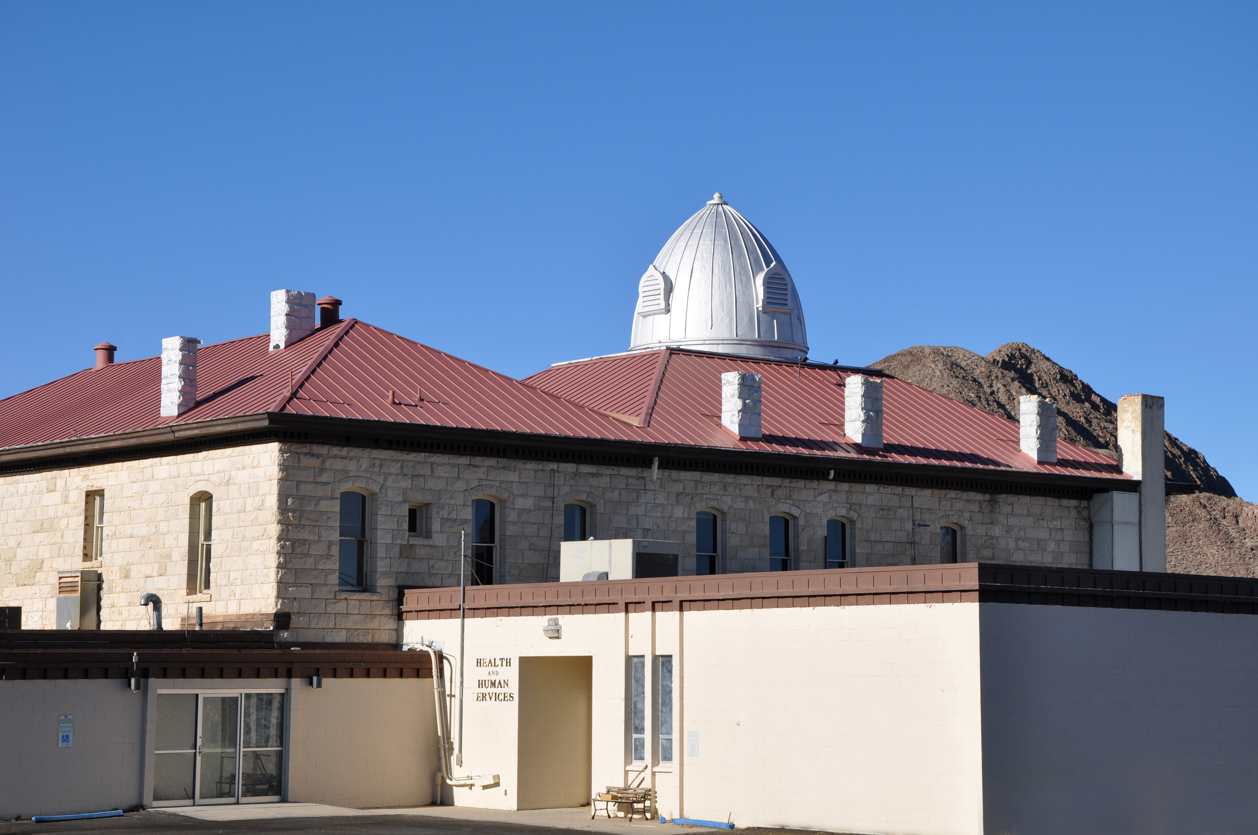 Nye County Courthouse in Tonopah, Nevada, United States. View is to the northwest from the parking lot behind the building.